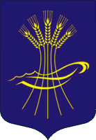 Coats of arms of Burynskij district (Ukraine)